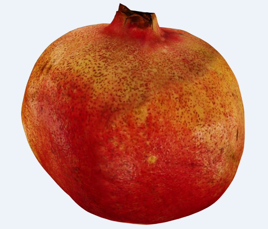 JPG from Scanbull 3D pomegranate with foto-texture